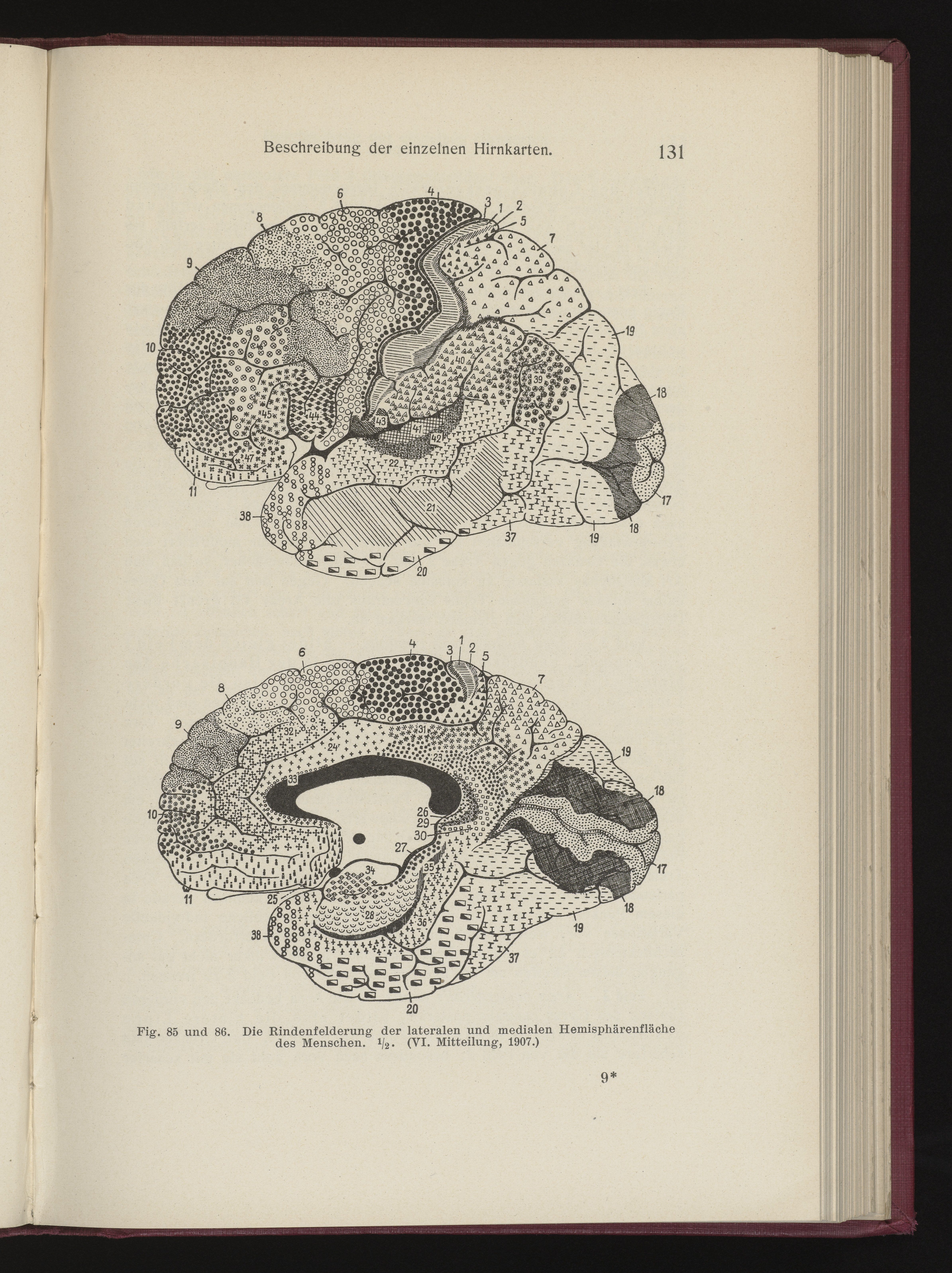 Vergleichende Lokalisationslehre der Grosshirnrinde in ihren Prinzipien dargestellt auf Grund des Zellenbaues / [K. Brodmann] Leipzig : Barth, 1909 Comparative localization theory of the cerebral cortex represented in its principles on the basis of cell structure / [K. Brodmann] Leipzig: Barth, 1909 General Collections Keywords: Brain; Brodmann, Korbinian; Cerebral Cortex; 2-D bar code